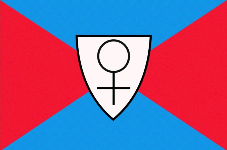 Flag of Other World Kingdom